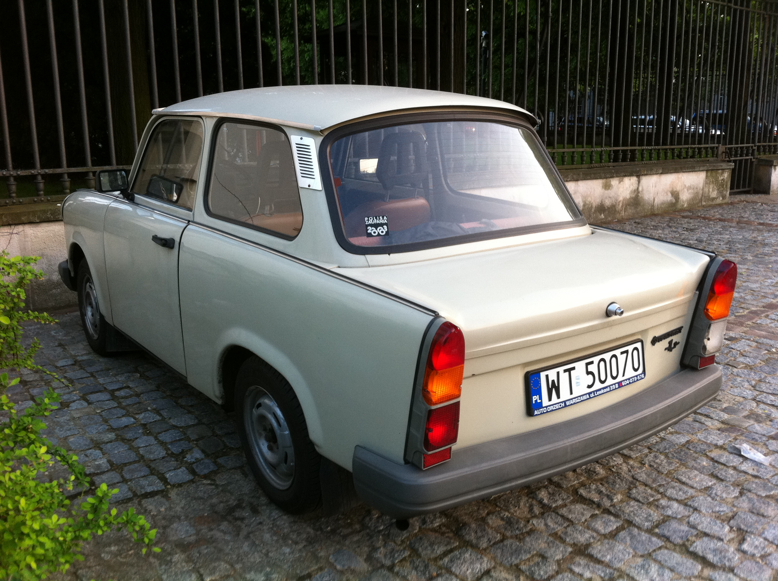 Trabant 1.1 sedan finished in light grey. Parked next to Belweder Palace in Warsaw Poland.